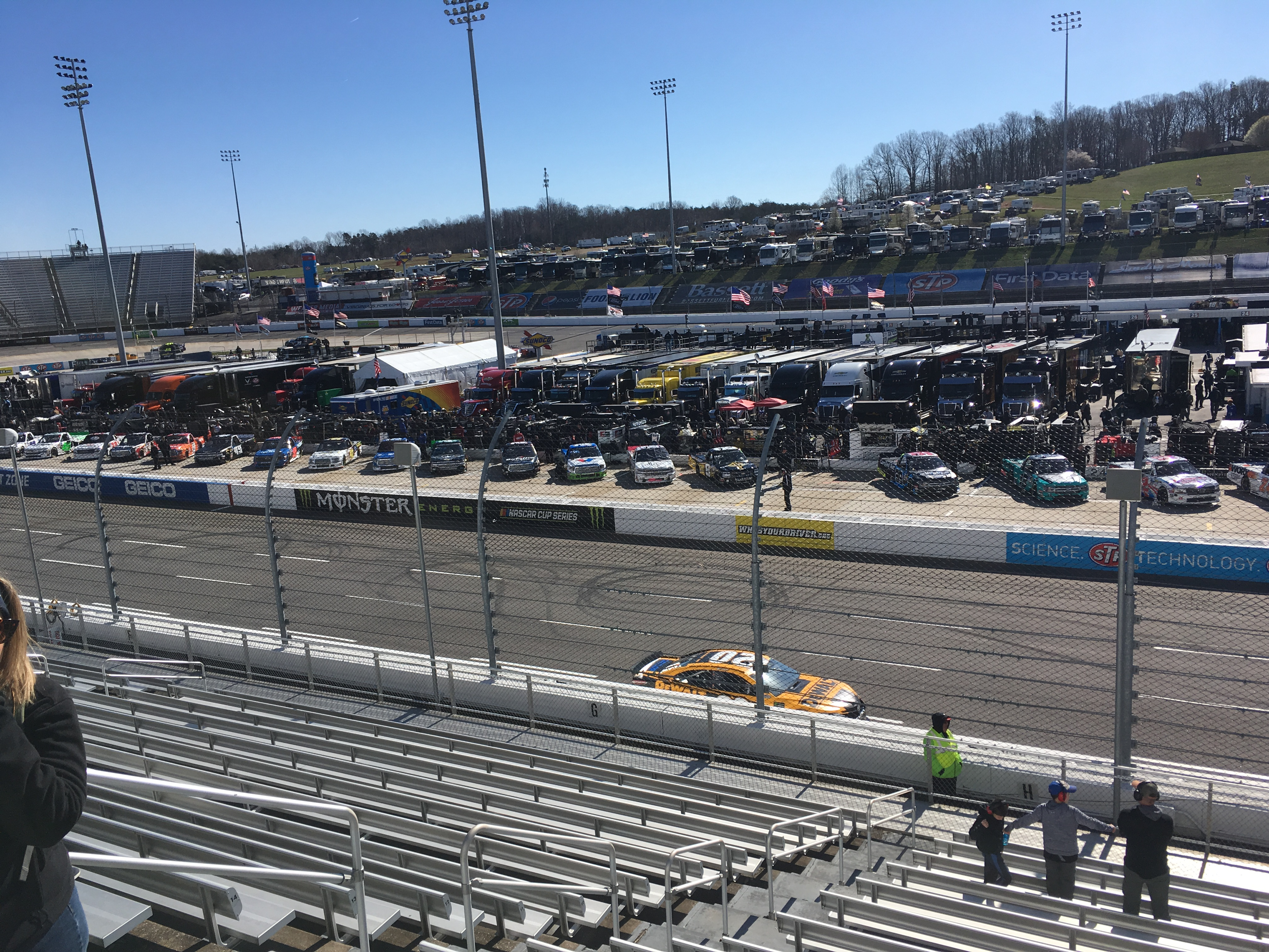 First practice for the 2019 STP 500 at Martinsville Speedway viewed from the frontstretch. Erik Jones (#20) drives by on the track.